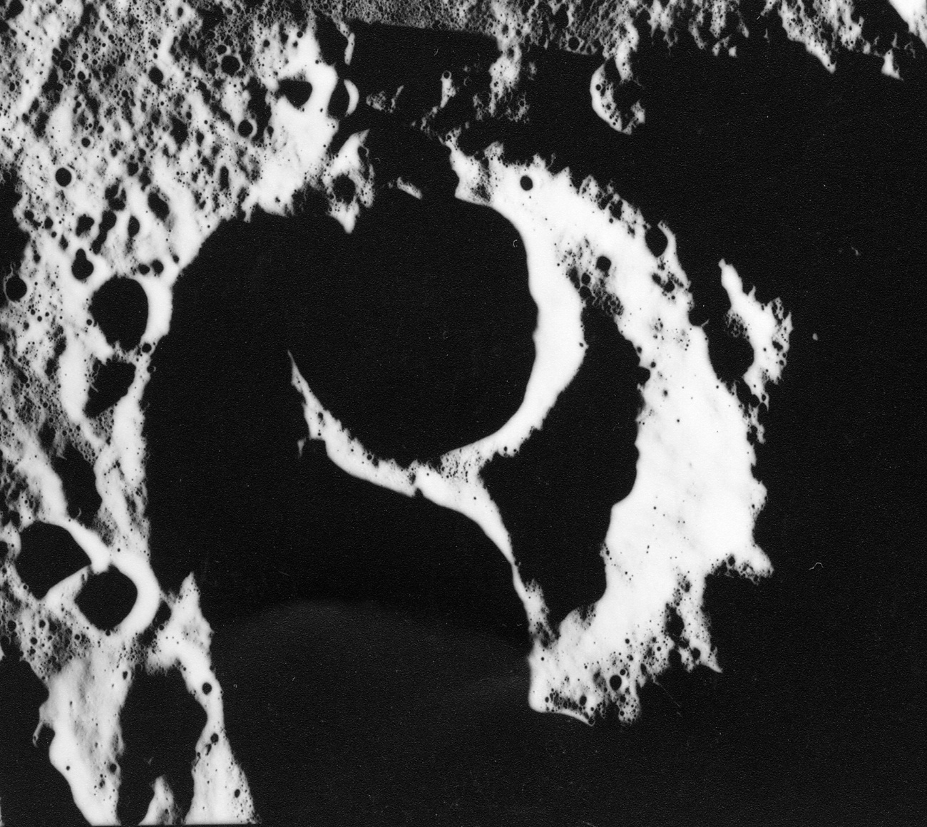 Wilsing, on the far side of the moon, while at the lunar terminator. Taken from an altitude of approximately 125 km on Revolution 1 of the Apollo 17 mission. Sun angle is about 2 deg.